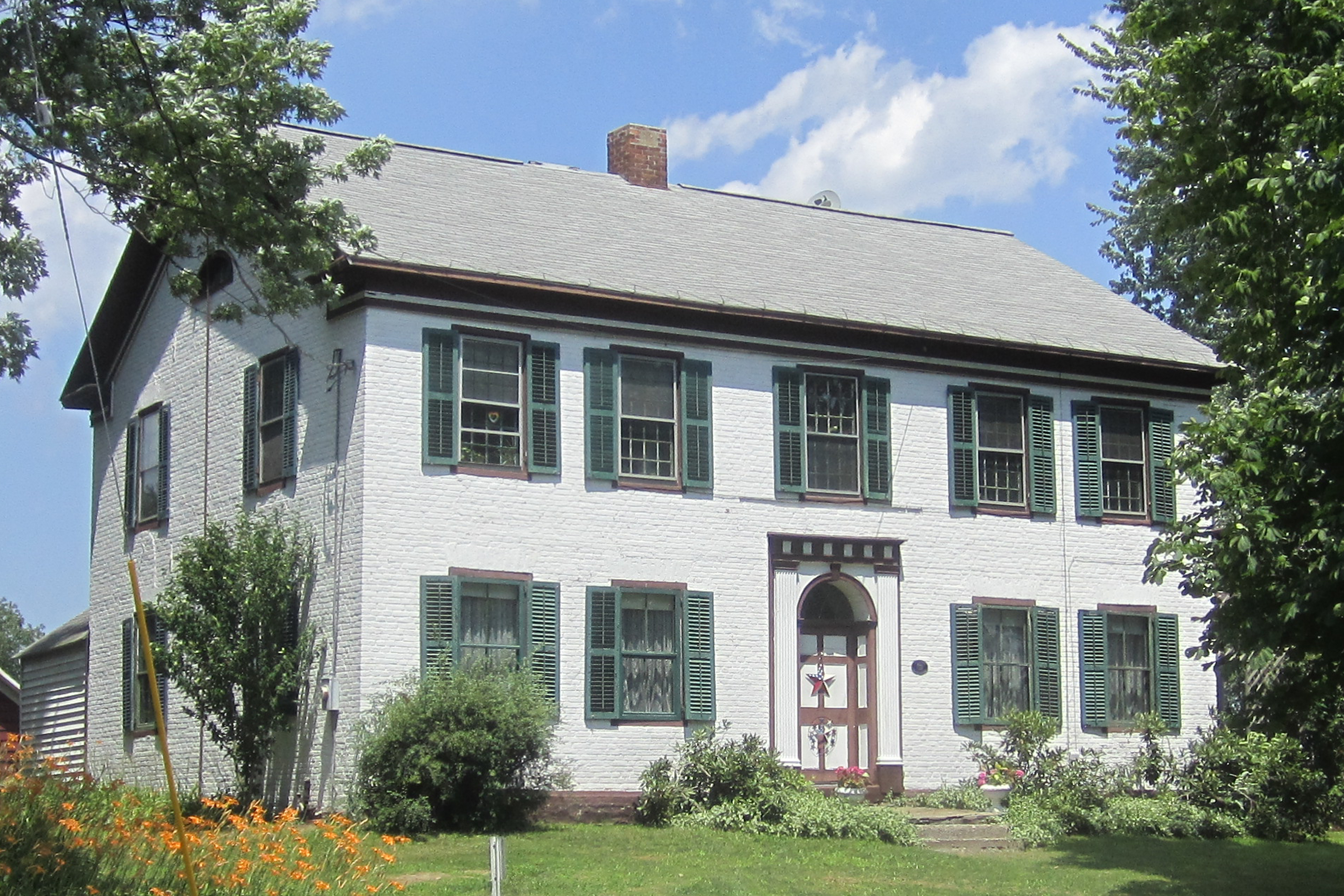 Unaltered example of Federal architecture, Rexford, New York. ca. 1791.